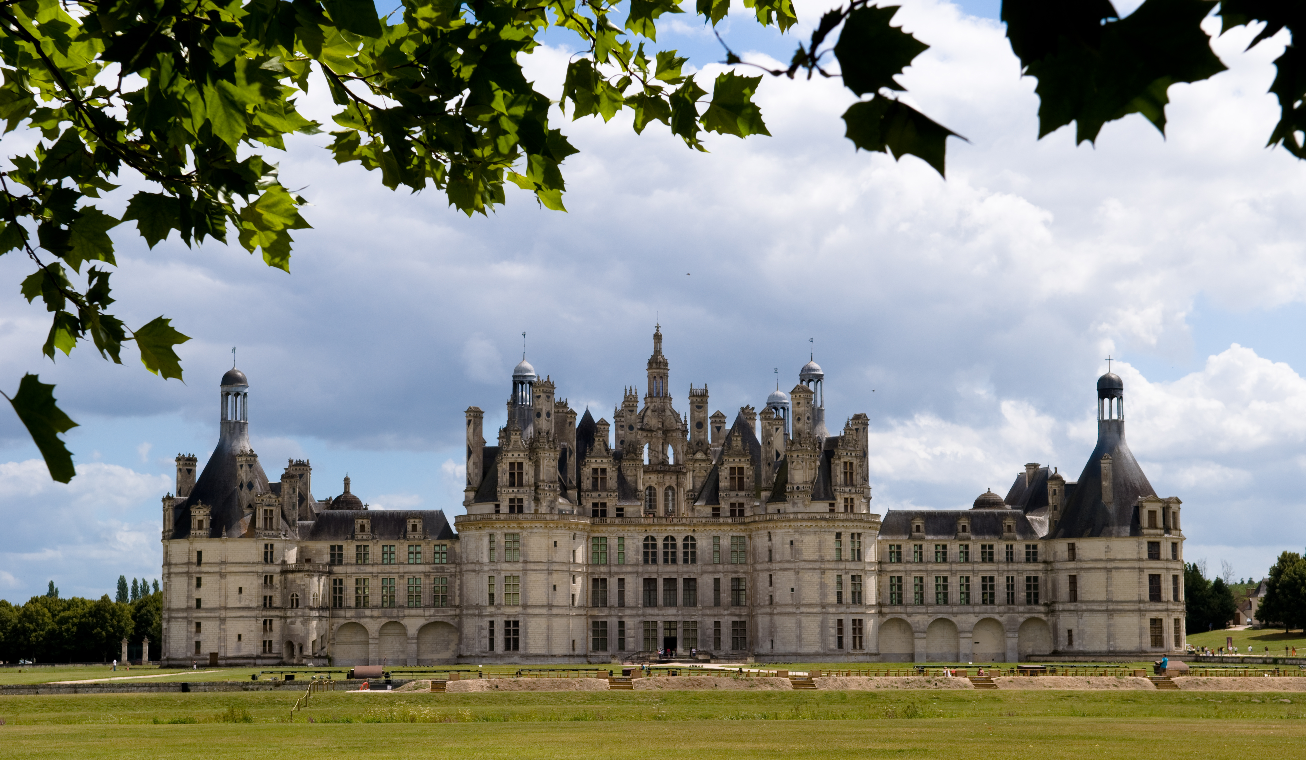 The royal Château de Chambord at Chambord, Loir-et-Cher, France.